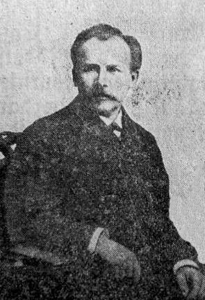 The picture shows Heinrich Josef Splieth (1842-1894) in 1888